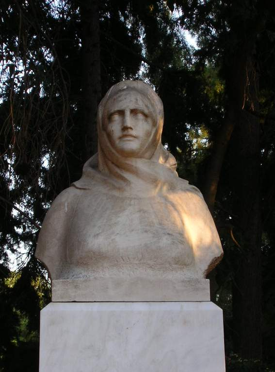 monument of LaskarinaMpoumpoulina in Athens, own photo Gepsimos 15:03, 14 May 2006 (UTC)